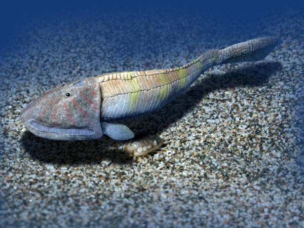 Life reconstruction of Hemicyclaspis murchisoni